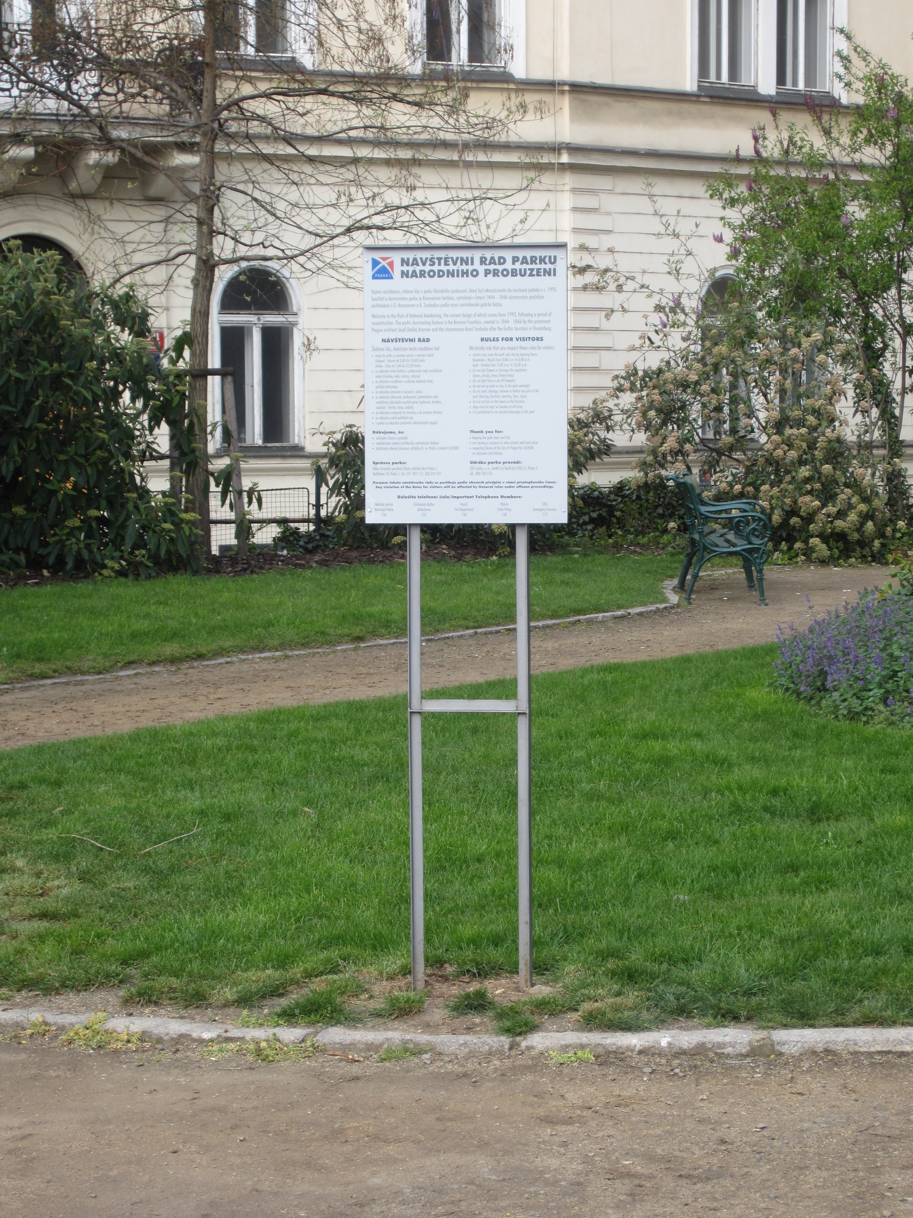 Prague, Czech Republic, April 2016